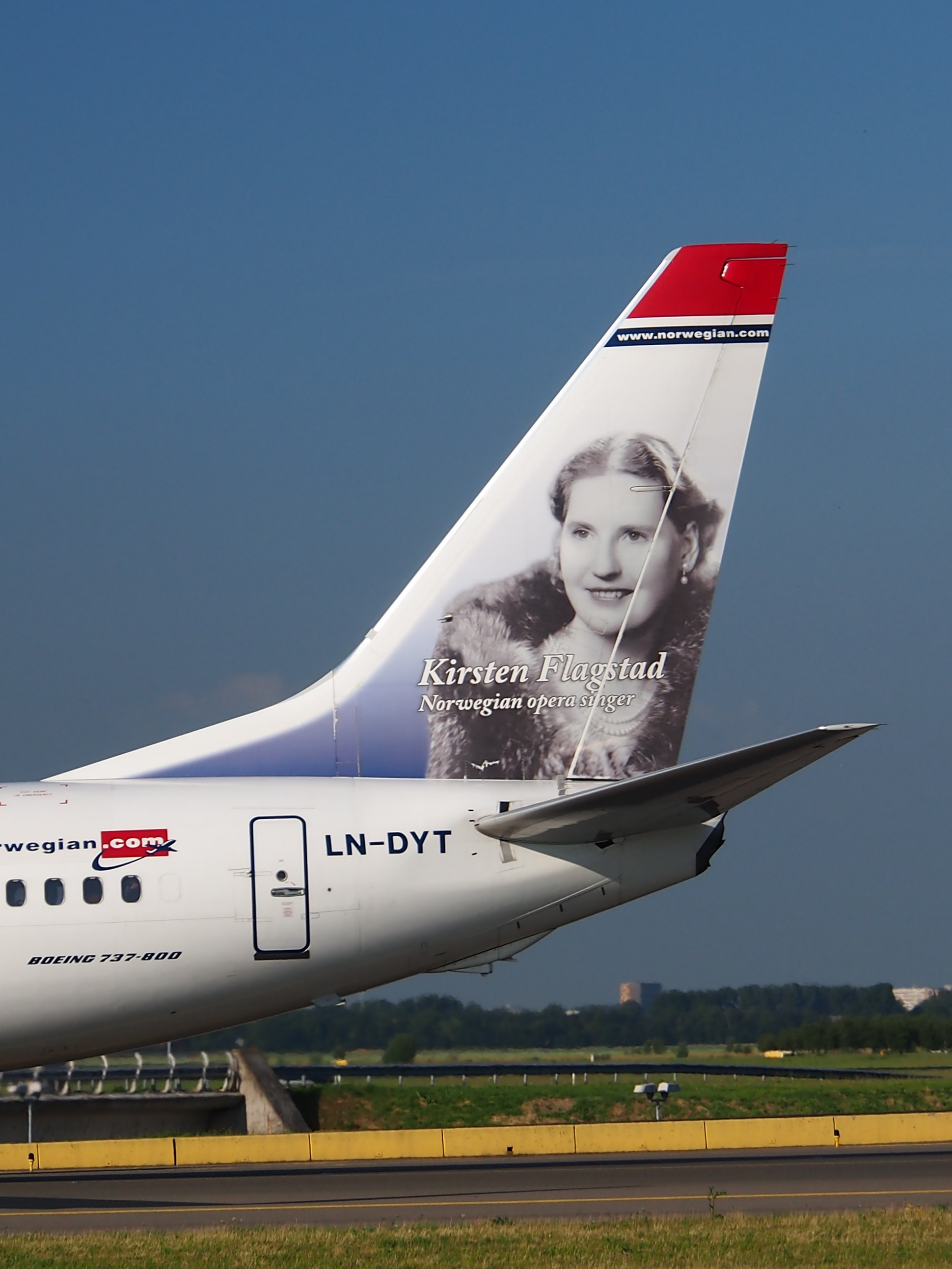 Photographed at Schiphol, Amsterdam airport, (IATA: AMS, ICAO: EHAM), the Netherlands.